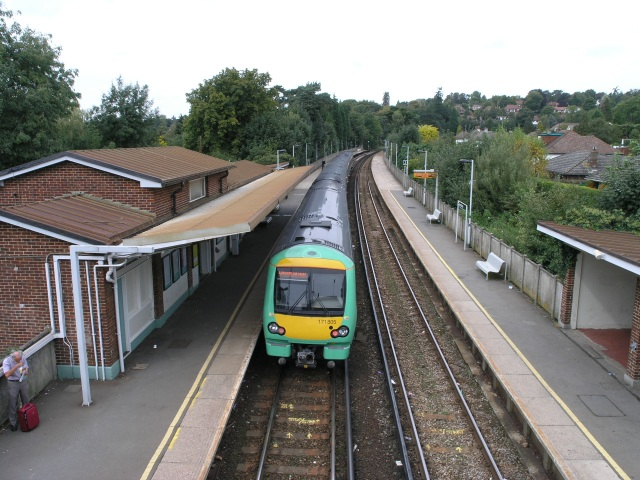 171805 at Hurst Green Station, with a service to London Bridge.